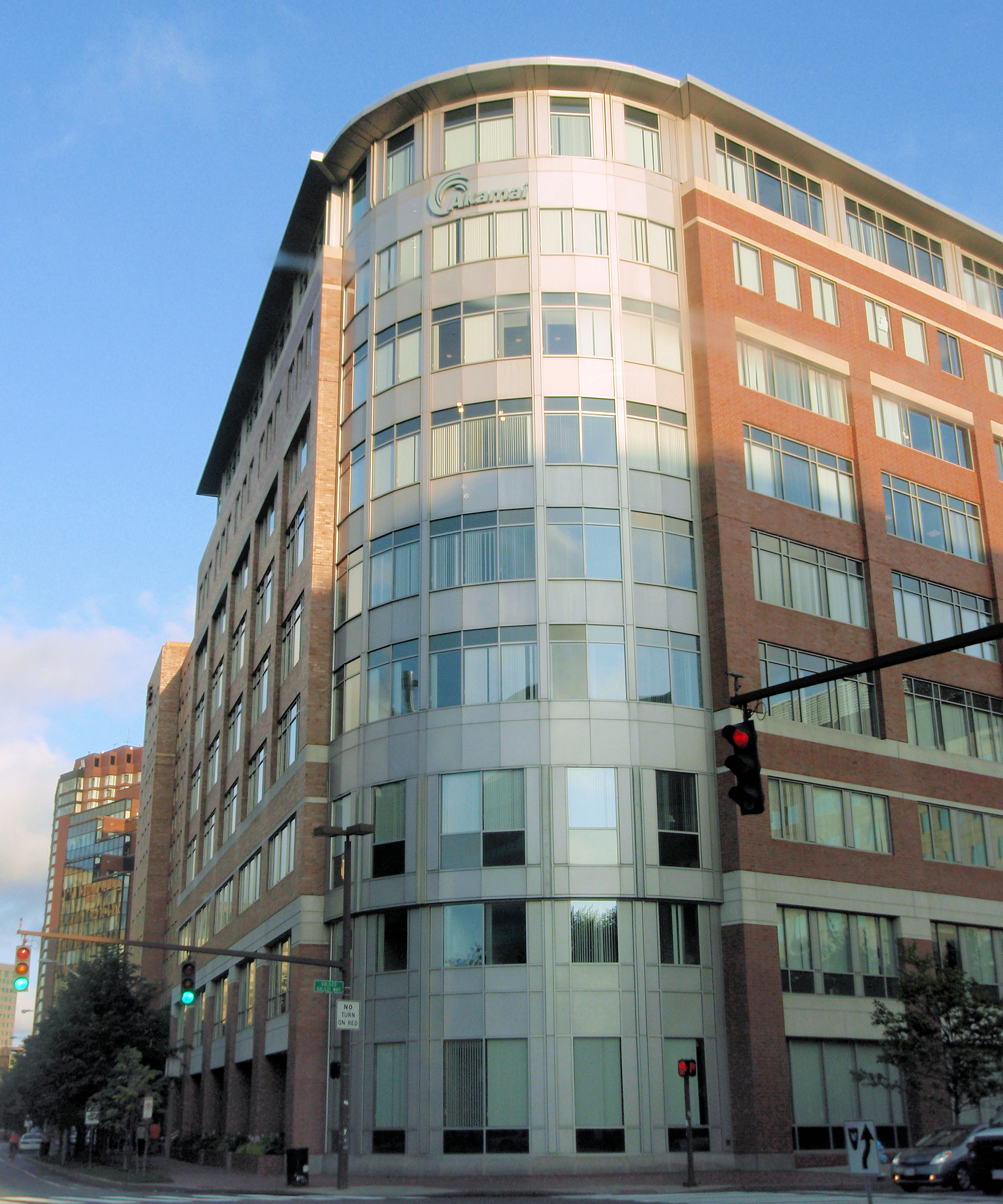 Akamai Technologies headquarters in Cambridge. Photographed by user Coolcaesar on June 19, 2009.